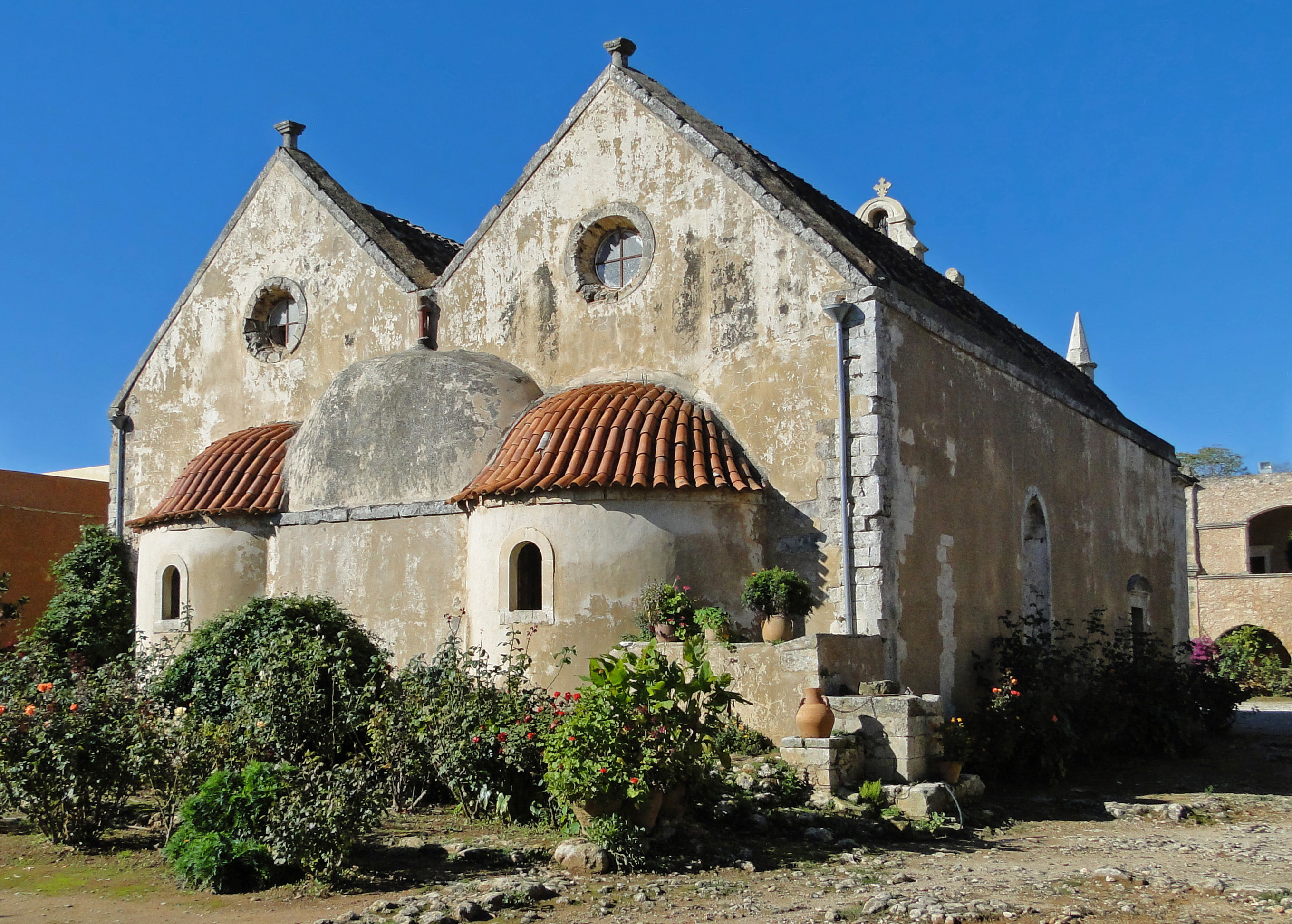 Apses of the church of the Arkadi Monastery, Crete, Greece